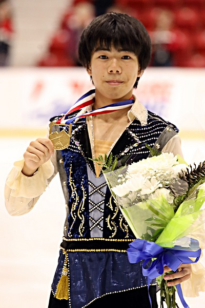 Shun Sato at the 2019 JGP Lake Placid - Awarding ceremony